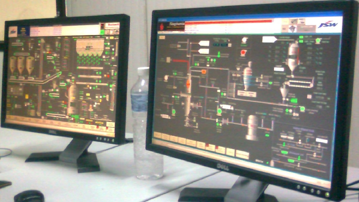 Chemical engineering image